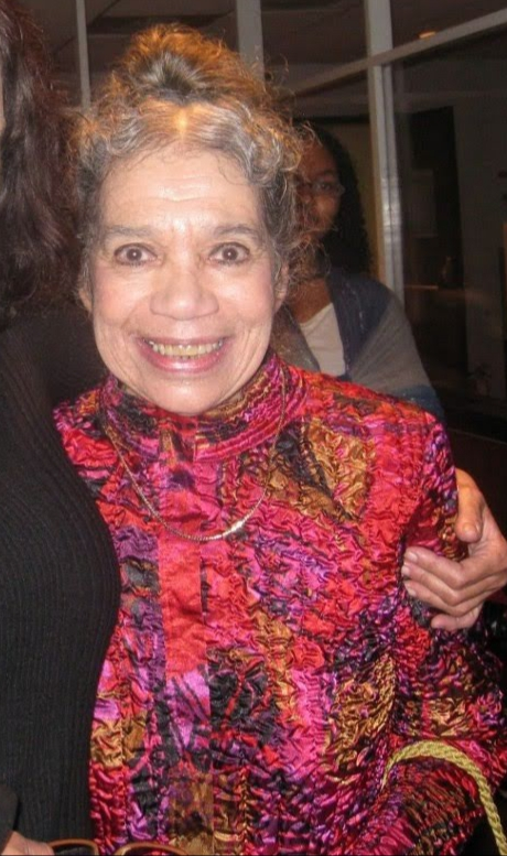 This is a personal photo that I took of Raven Wilkinson attending La Bayadère in support of ballerina Misty Copeland who is the first African American female principal dancer with the American Ballet Theatre in New York City. Raven was a mentor to Misty.